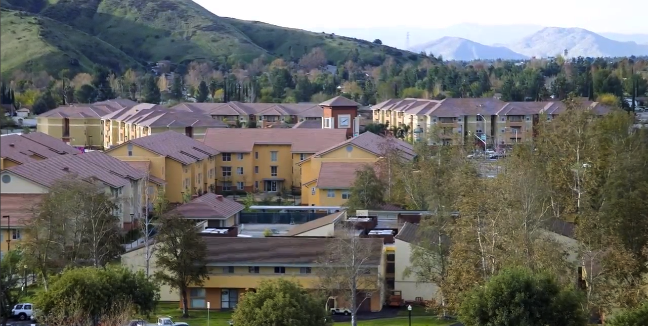 The dorms at California State University, San Bernardino